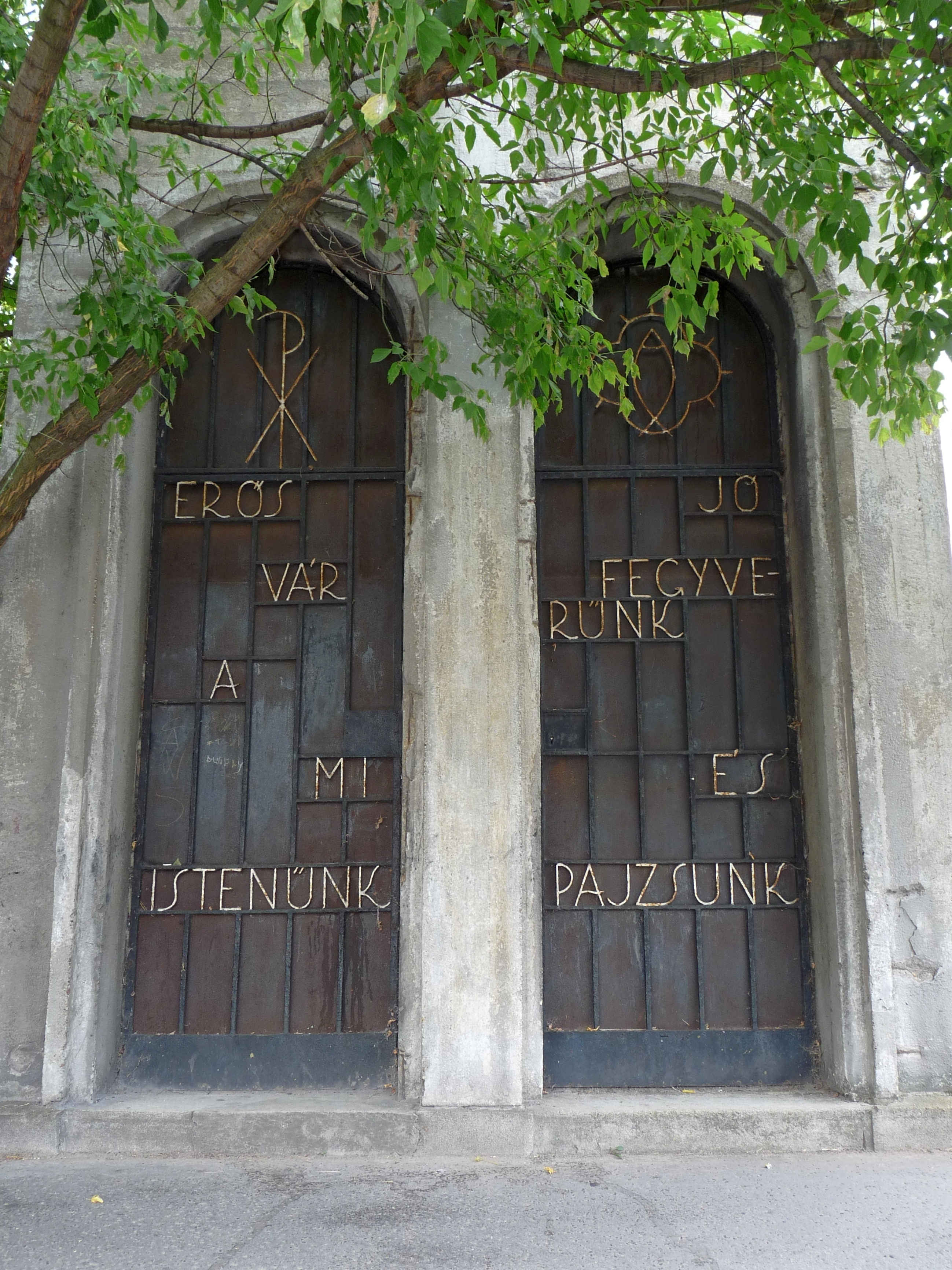 The first two rows in Hungarian of Martin Luther's canticle "Ein feste Burg ist unser Gott" written at the door of an former Lutheran church in Budapest. The ruined church tower was built in 1936 according to the plans of Kálmán Lux, using a reinforced concrete with bauxite cement. Quote: "It is a bulwark that our God / An invincible armor" (Budapest, District VIII, Vajda Péter Street Nr 33–35)